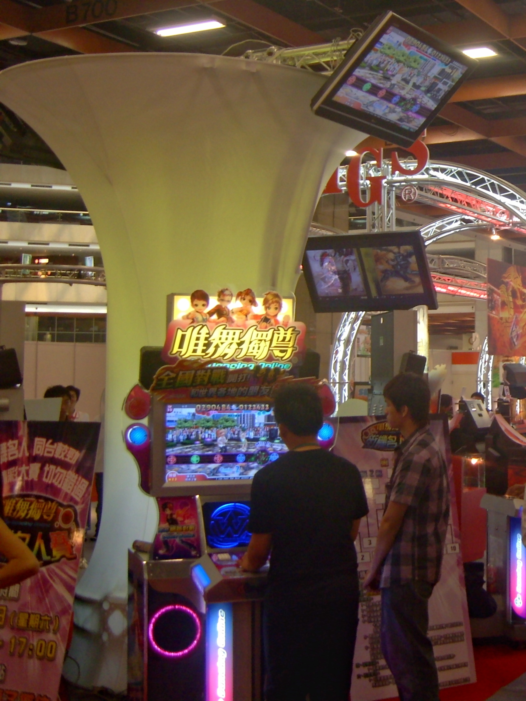 2009 GTI Asia Taipei: IGS - We Dancing Online Arcade Display.